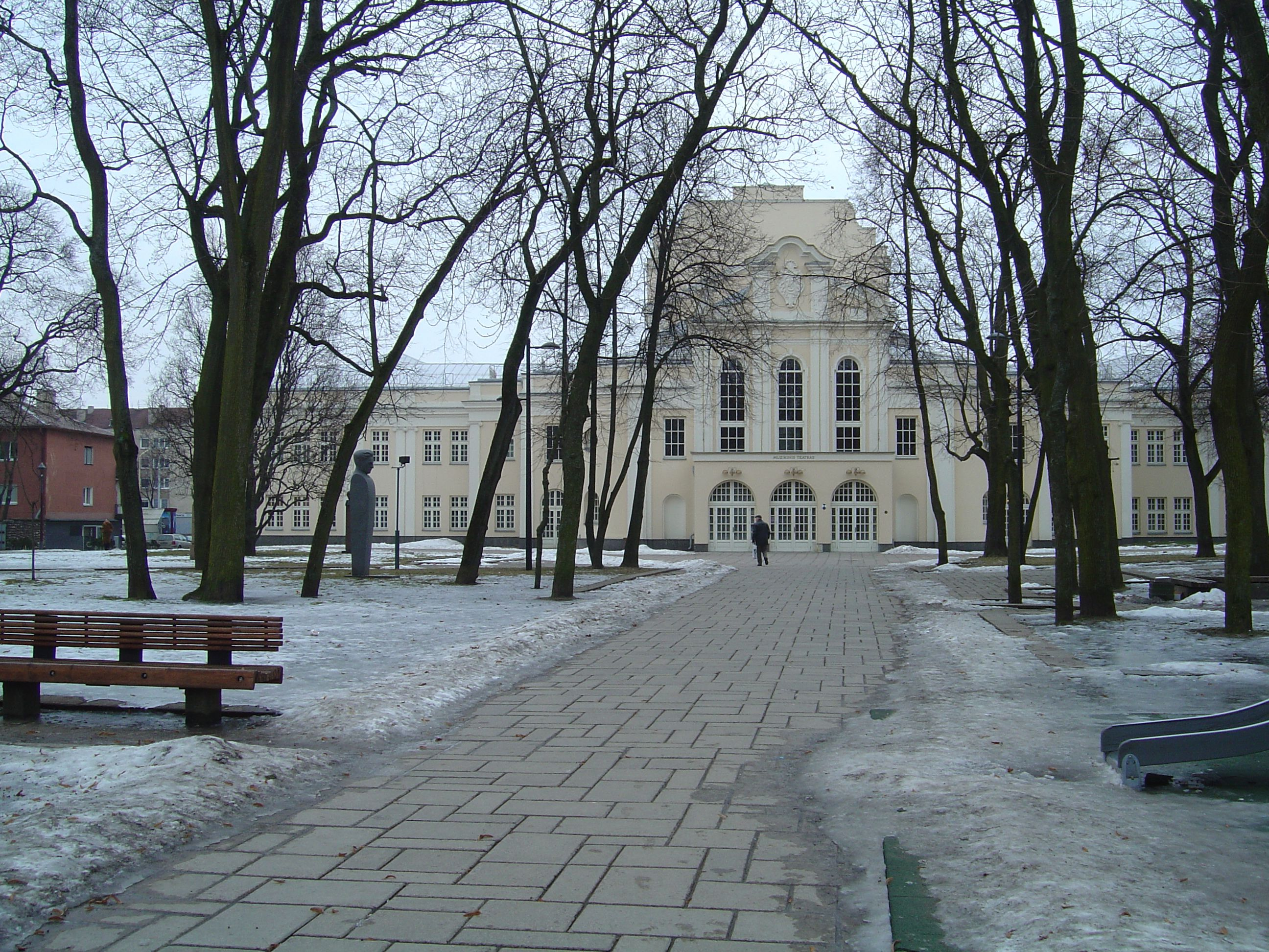 Kaunas Musical Theatre.